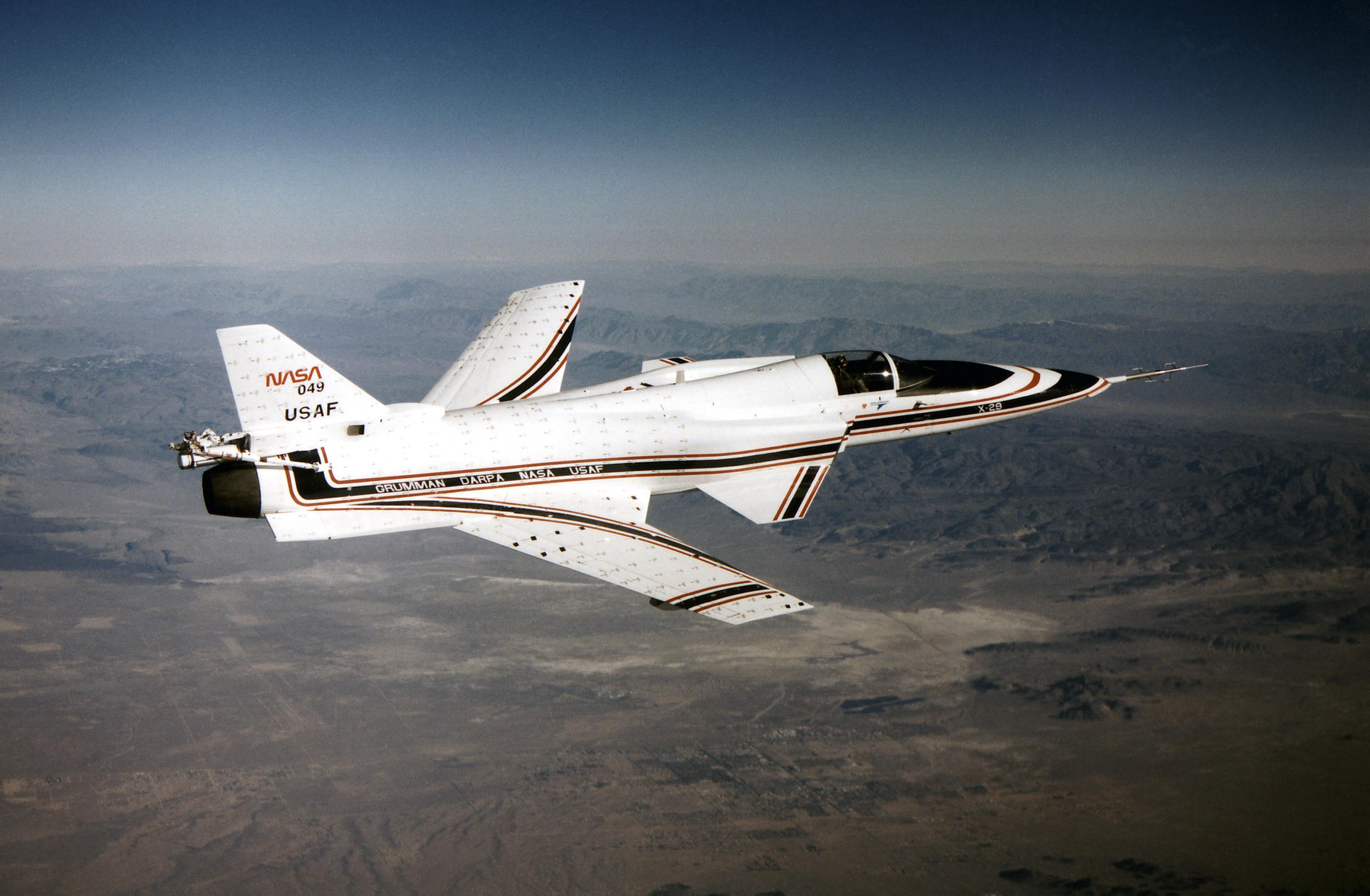 The X-29 Flight Research Aircraft features one of the most unusual designs in aviation history. Demonstrating forward swept wing technology, this aircraft investigated numerous advanced aviation concepts and technologies. The fighter-size X-29 explored the use of advanced composites in aircraft construction, variable camber wing surfaces, an unique forward-swept-wing and its thin supercritical airfoil, and strake flaps. The X-29 also demonstrated three specific aerodynamic effects:canard effects,active controls, and aeroelastic tailoring. Canard effects use canards (small wings) to function as another control surface to manipulate air flow. Active controls enable an airplane to pull air across the plane in specific directions rather than passively letting the air flow over it. Aeroelastic tailoring allows parts of an aircraft to flex slightly when airhits it in a certain way to allow for maximum flexibility of air flow. Although the X-29 was one of the most instable of the X-series in maneuvering capabilities, it was controlled by a computerized fly-by-wire flight control system that overcame the instability going further than any other aircraft testing the limits of computer controls. The first flight was December 14, 1984.